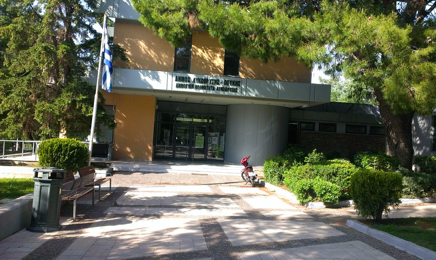 lykovrysi